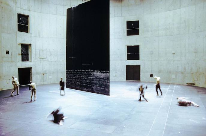 Presentation of "Körper" at Schaubühne Berlin